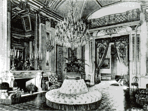 Ball room in the Palace of the marquis d'Assche (built 1856-60 by Alphonse Balat in the Wetenschapsstraat 33, Brussels)